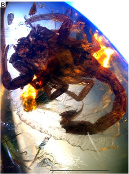 Fig 2. Tityus apozonalli sp. nov. [B]: General view of fossil scorpion, scale bar 5 mm.